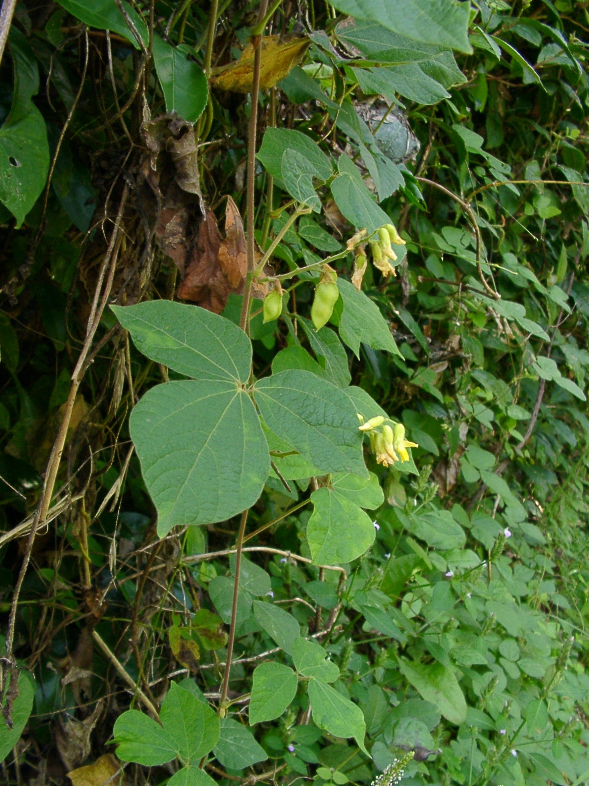 Rhynchosia acuminatifolia. at Odawara-city, Japan.